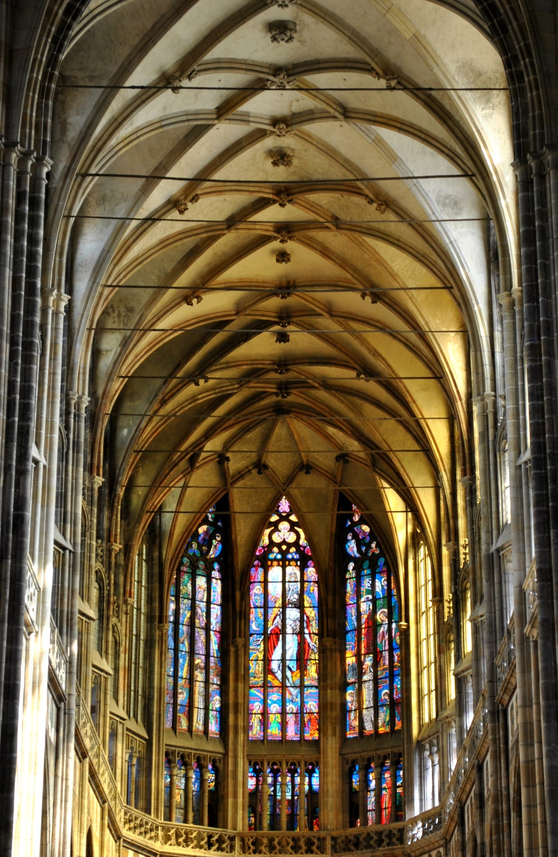 Coffer ceiling - the interior Gothic design of the apse.